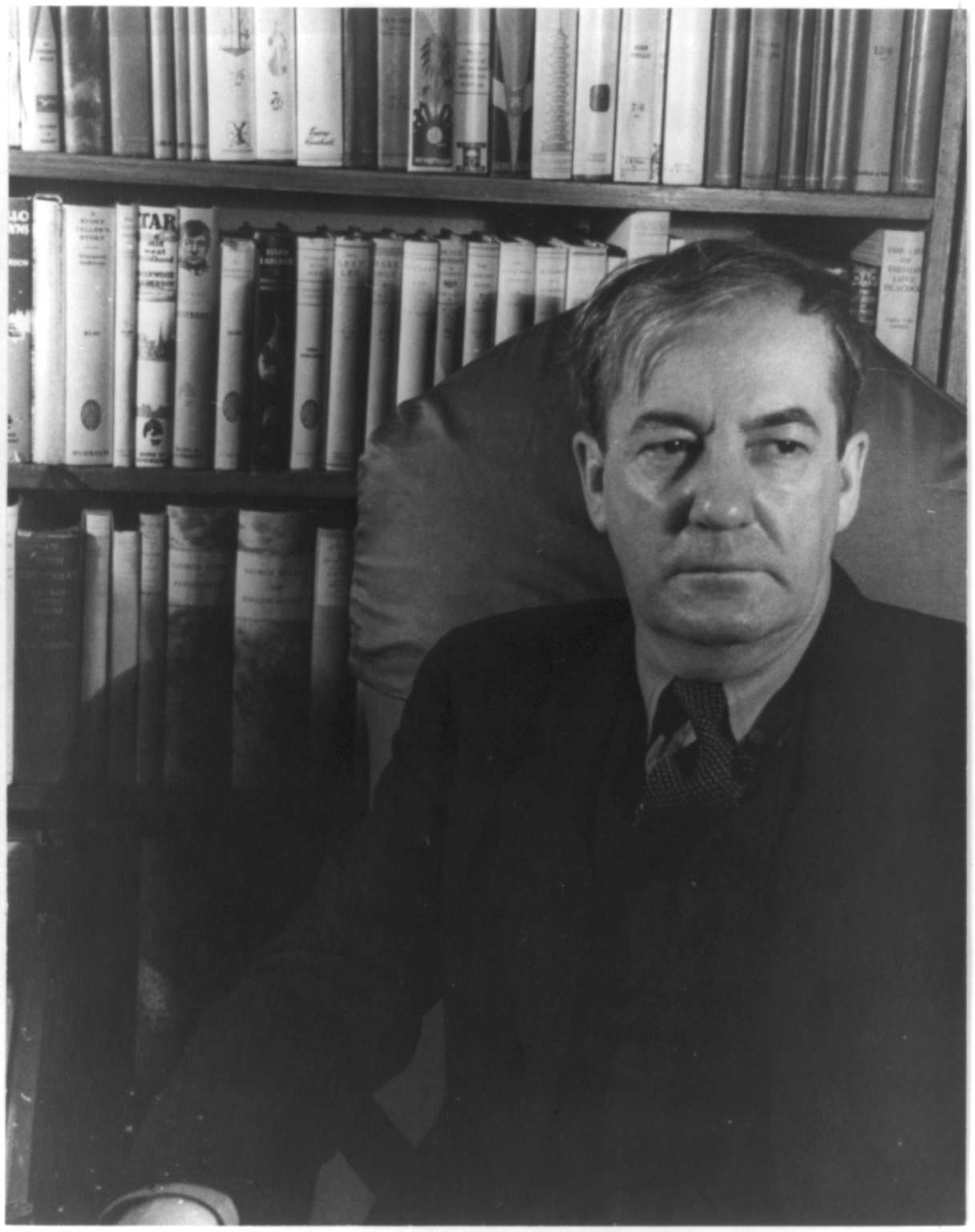 Photo of author Sherwood Anderson. Portrait of Sherwood Anderson, 1933